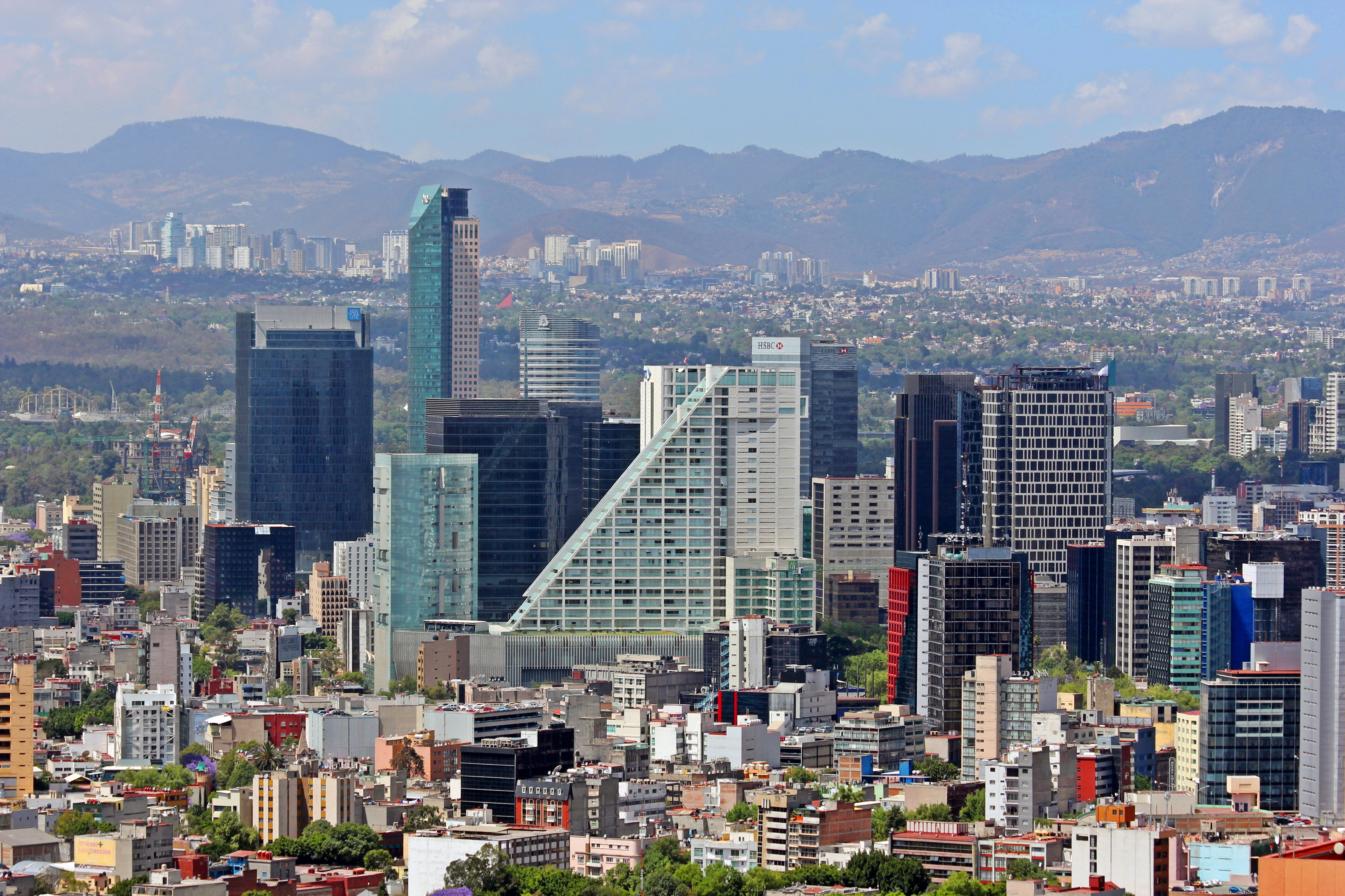 Buildings on Paseo de la Reforma in Colonia Cuauhtémoc and Colonia Juarez in Mexico City, Mexico.